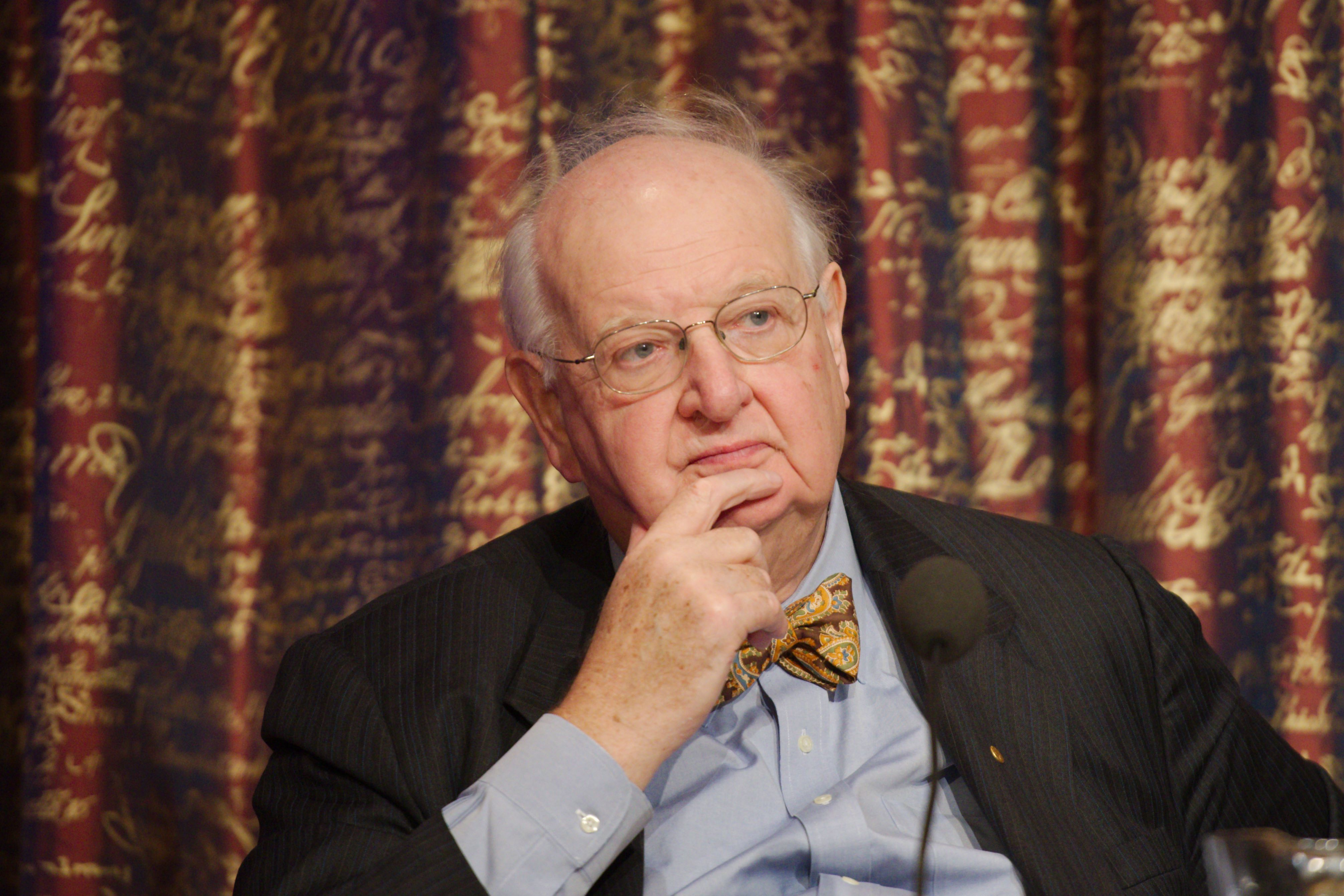 Angus Deaton at a press conference at the Royal Swedish Academy of Sciences